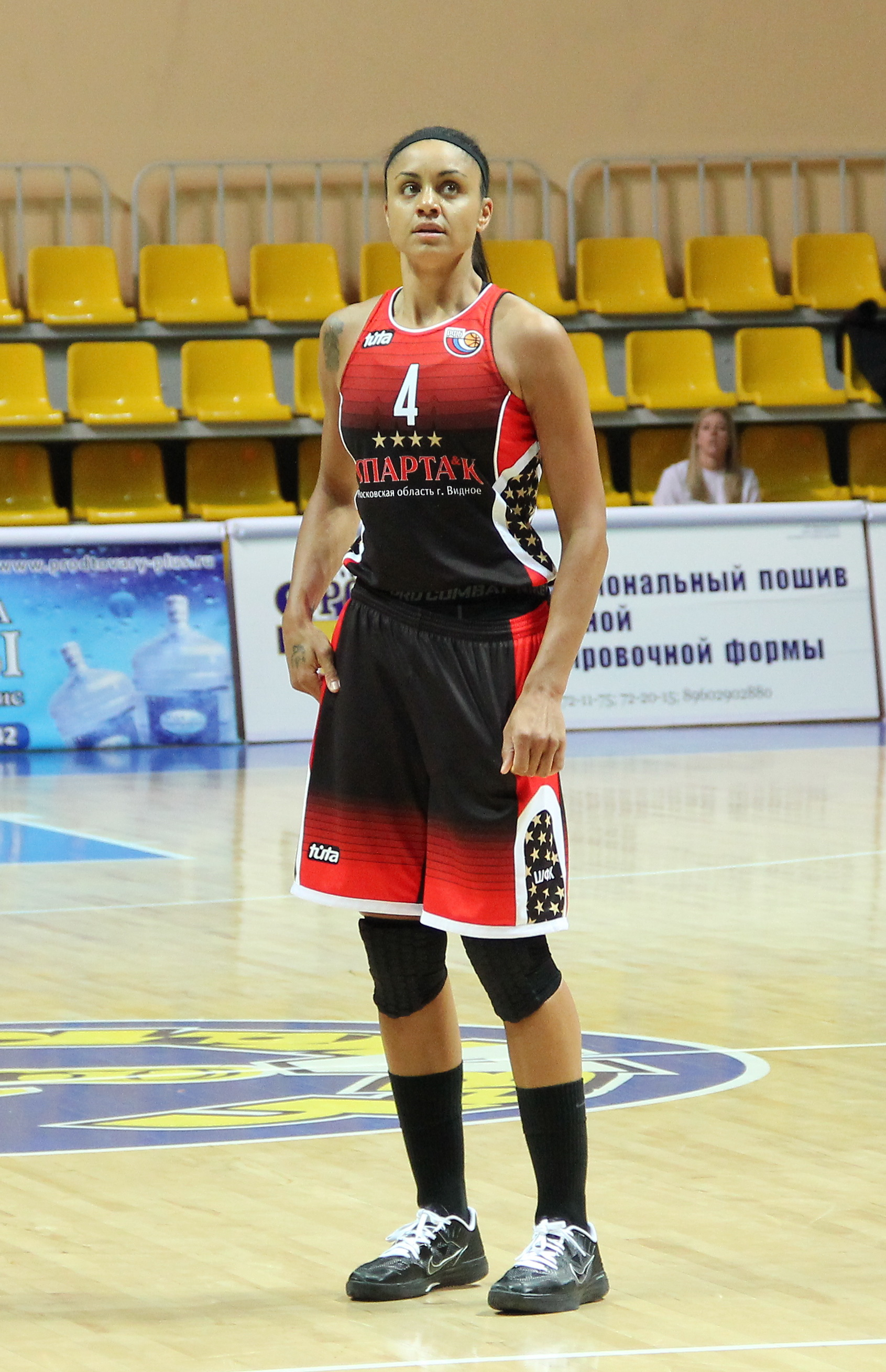 Russia, Vologda, Candice Dupree in game «Vologda-Chevakata» vs «WBC Spartak Moscow Region»